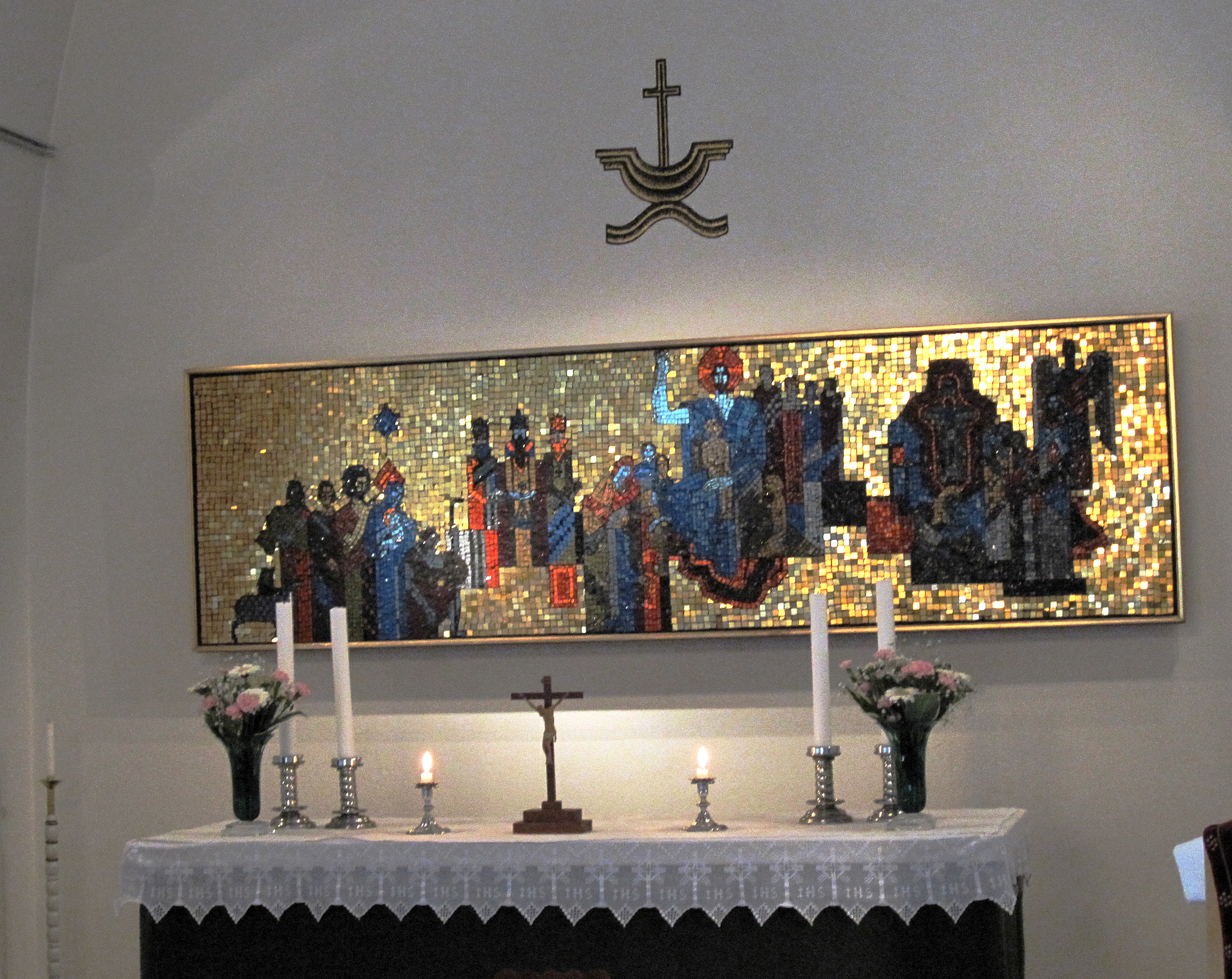 The altar of the Saint George Church in Mariehamn, Åland, Finland. Altar.